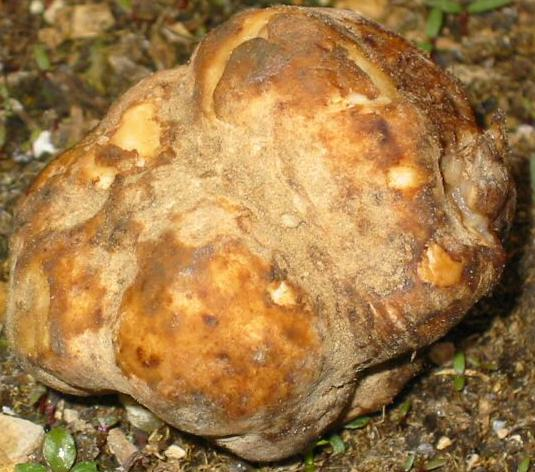 fungi